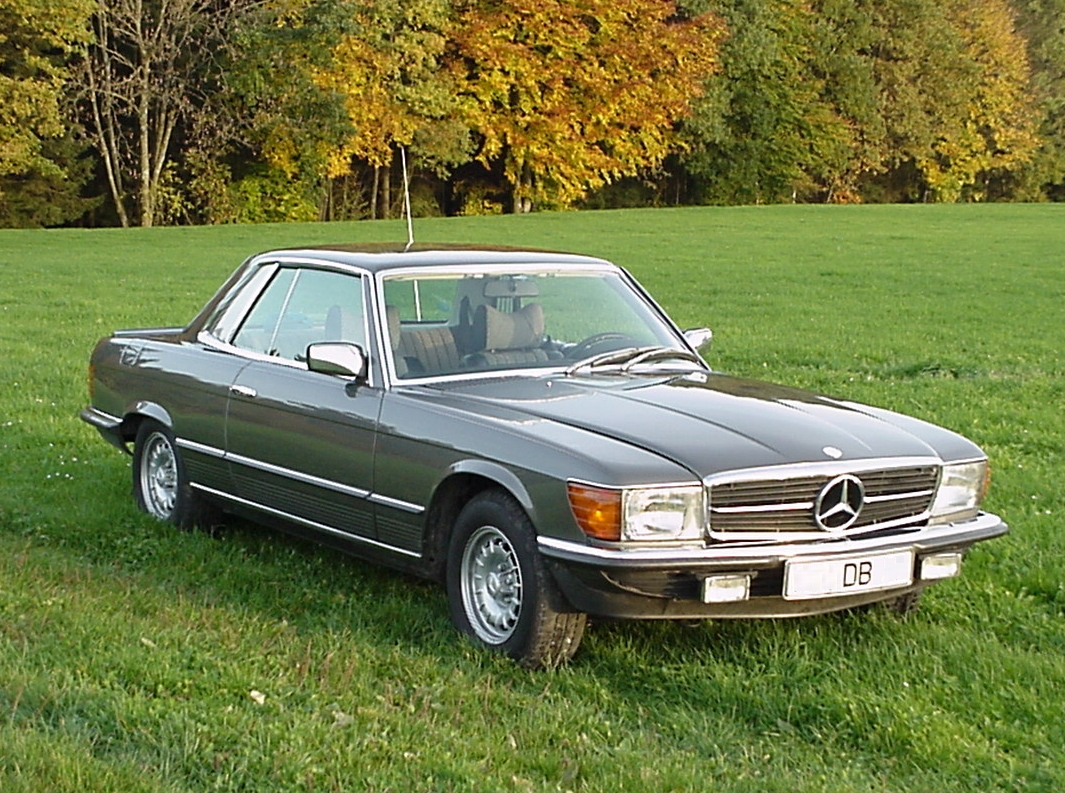 Mercedes-Benz C107.026 450 SLC 5.0